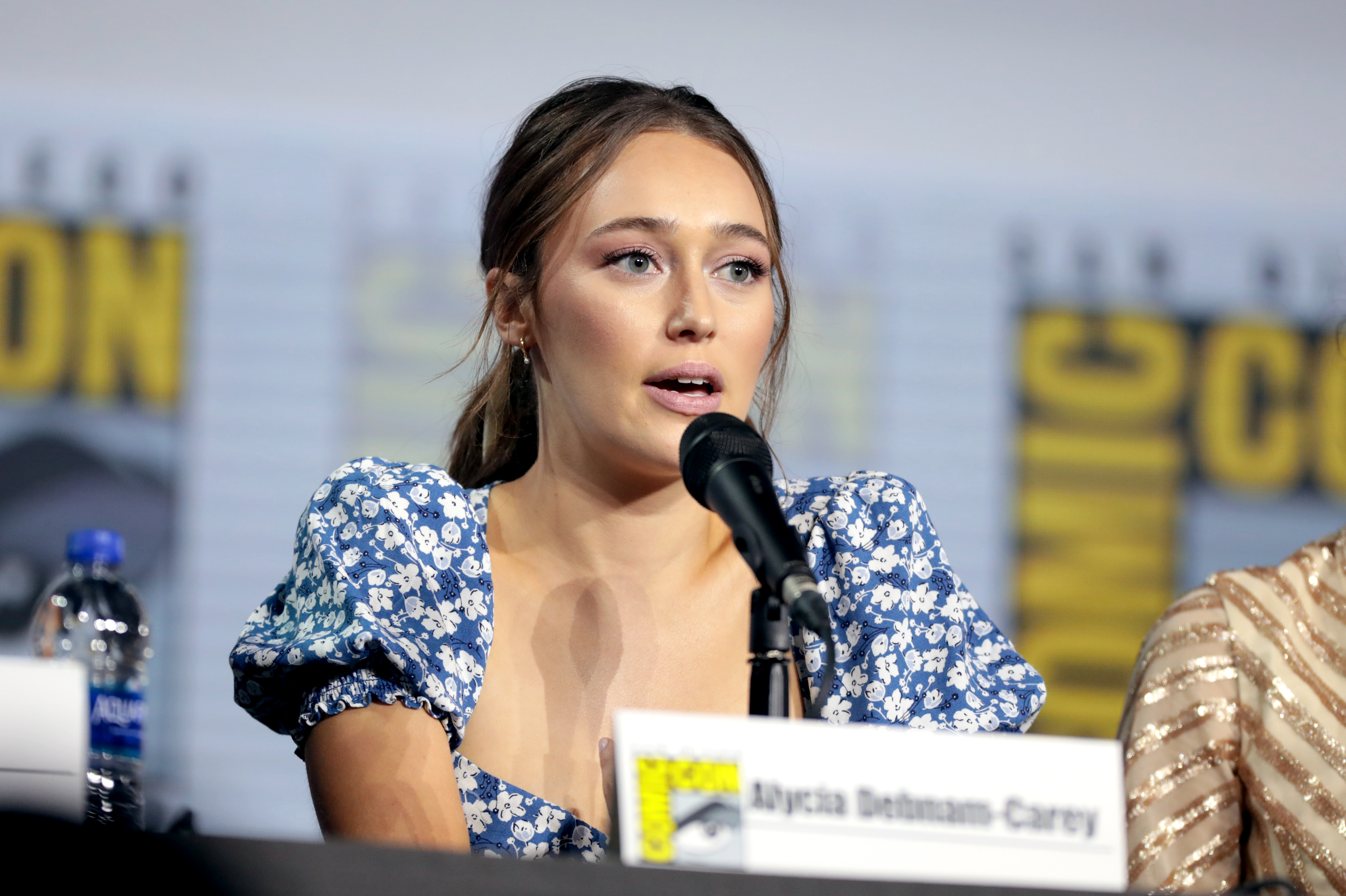 Alycia Debnam-Carey speaking at the 2019 San Diego Comic Con International, for "Fear the Walking Dead", at the San Diego Convention Center in San Diego, California.